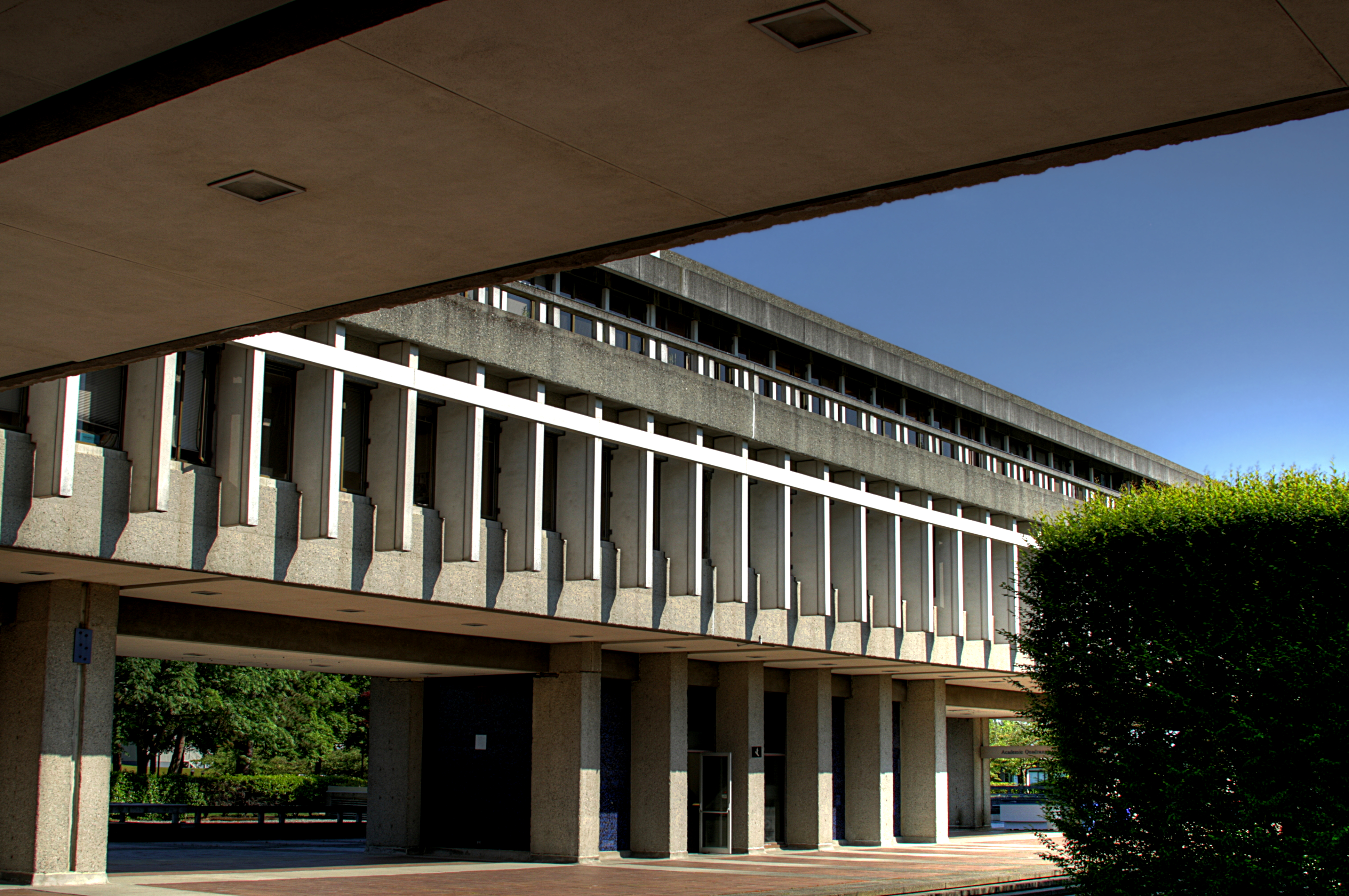 Courtyard of Academic Quadrangle, Simon Fraser University, Burnaby, British Columbia, Canada.